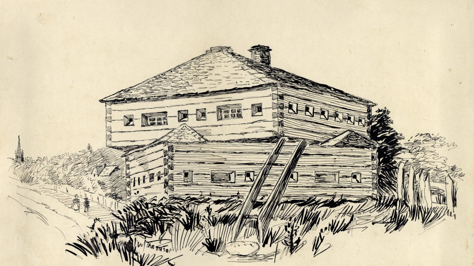 Blockhouse on Sherbourne, above the Rosedale Ravine. Original caption: “Pen & ink drawing by William J. Thomson, 189?, after a photograph (B 12-31a) of a drawing.” This image is available from the Toronto Public LibraryThis tag does not indicate the copyright status of the attached work. A normal copyright tag is still required. See Commons:Licensing for more information. English | français | +/−